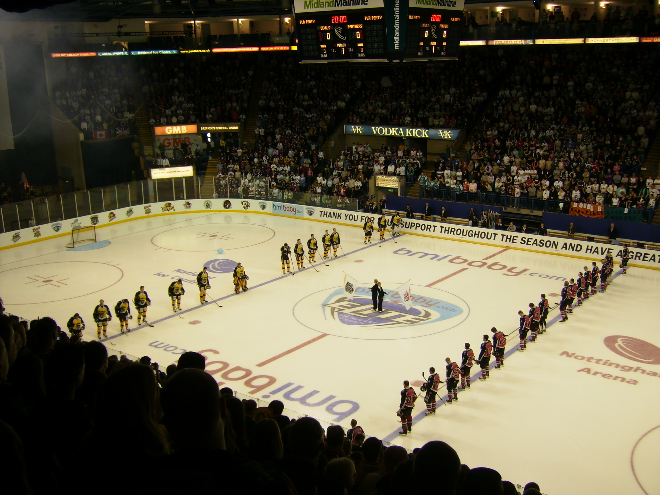 Nottingham Panthers v Cardiff Devils - Elite league Playoff final 09/04/2007 3pm.